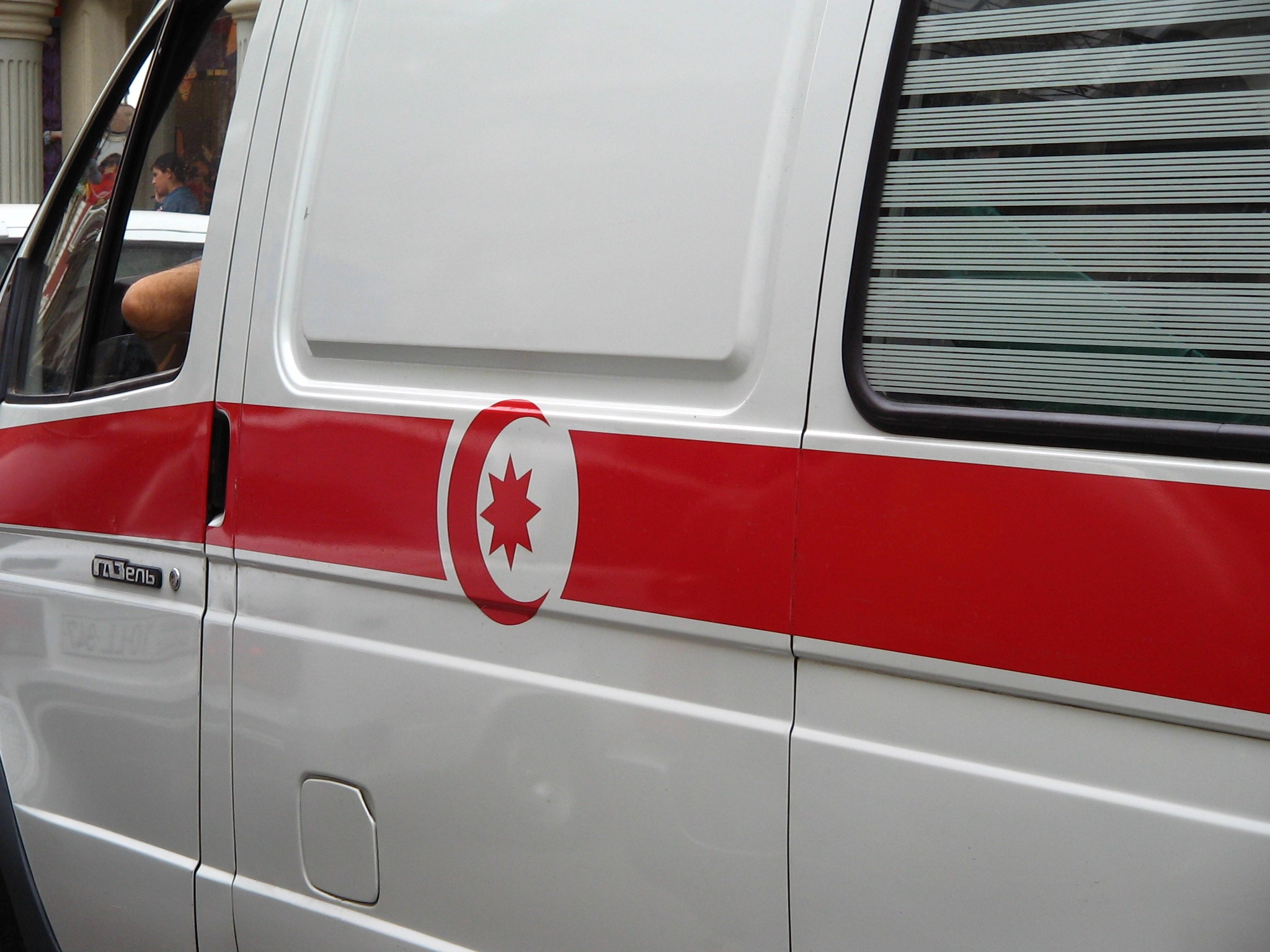 Ambulance car with Red Crescent emblem in Baku, Azerbaijan